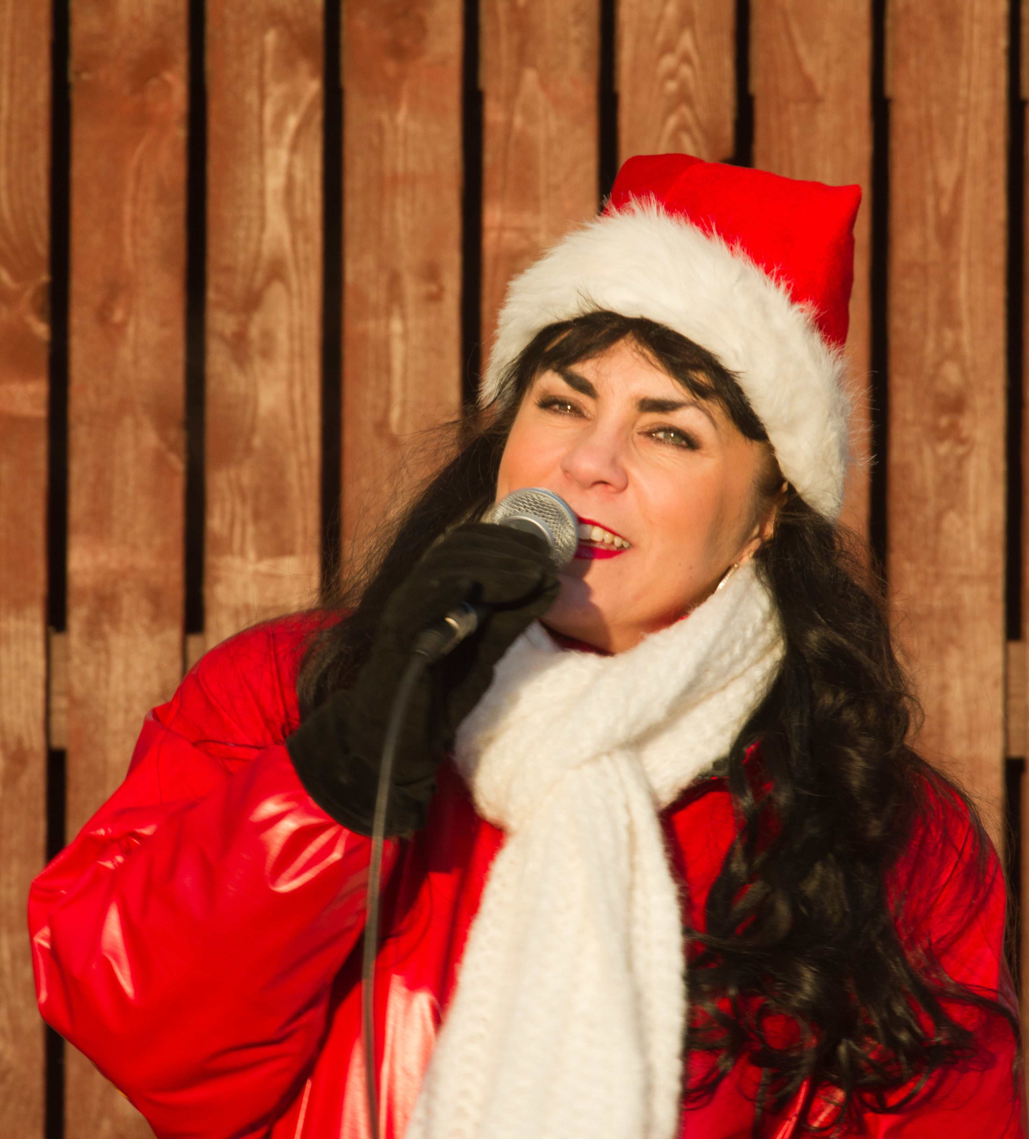 Eija Kourimo, finnish singer